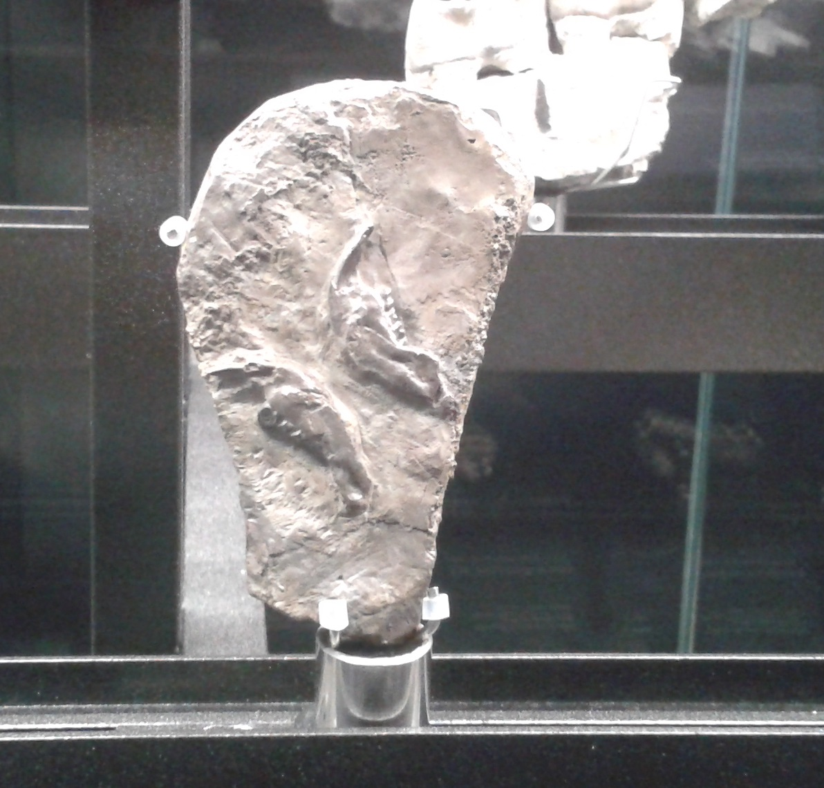 Fossil remains of Theridomys major, kept in Barcelona's Museu Blau.